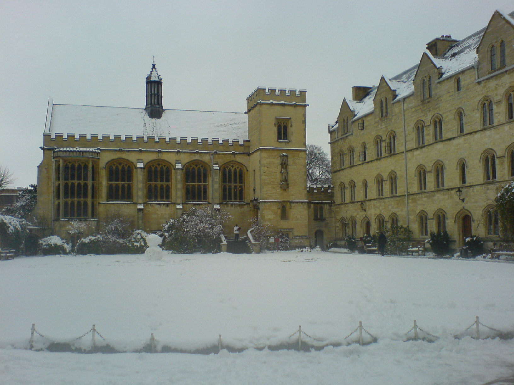 Snow covering the Chapel Quad of Pembroke College, Oxford